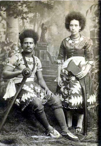 Fijian cannibals in PT Barnum's Circus, United States. Carte de visite photograph, c 1872-3. Author possibly Weed, C.L., American photographer, 1824-1903.